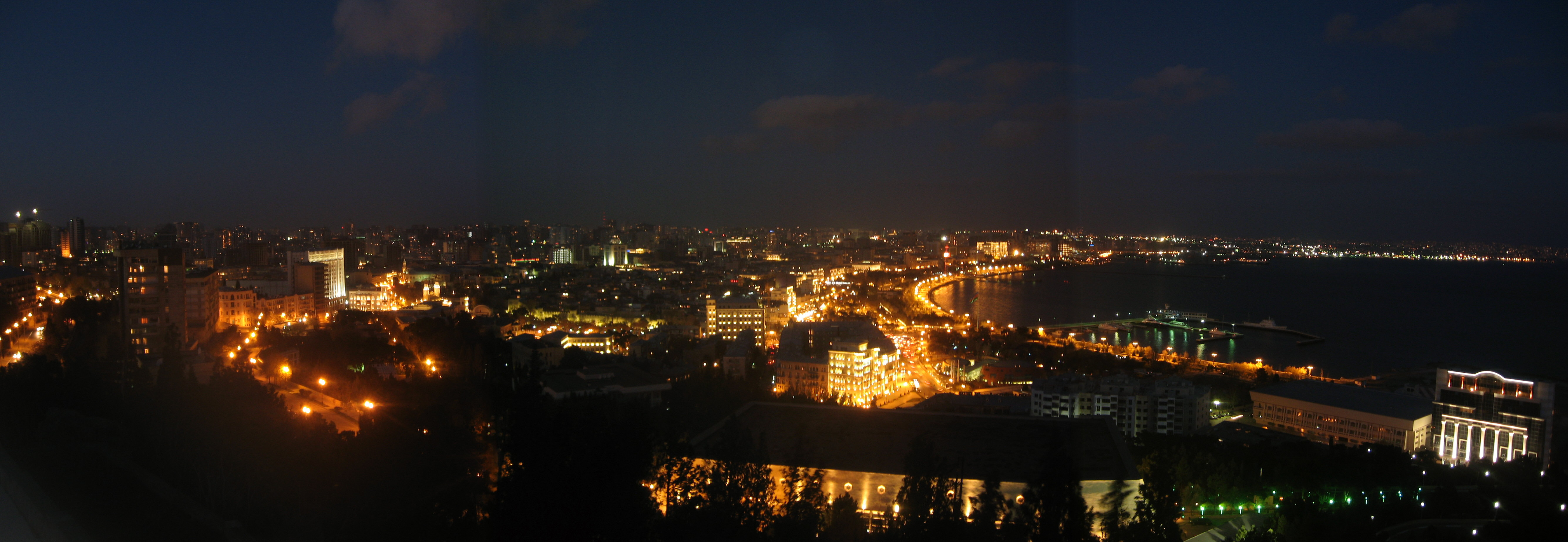 Panorama of Baku at night